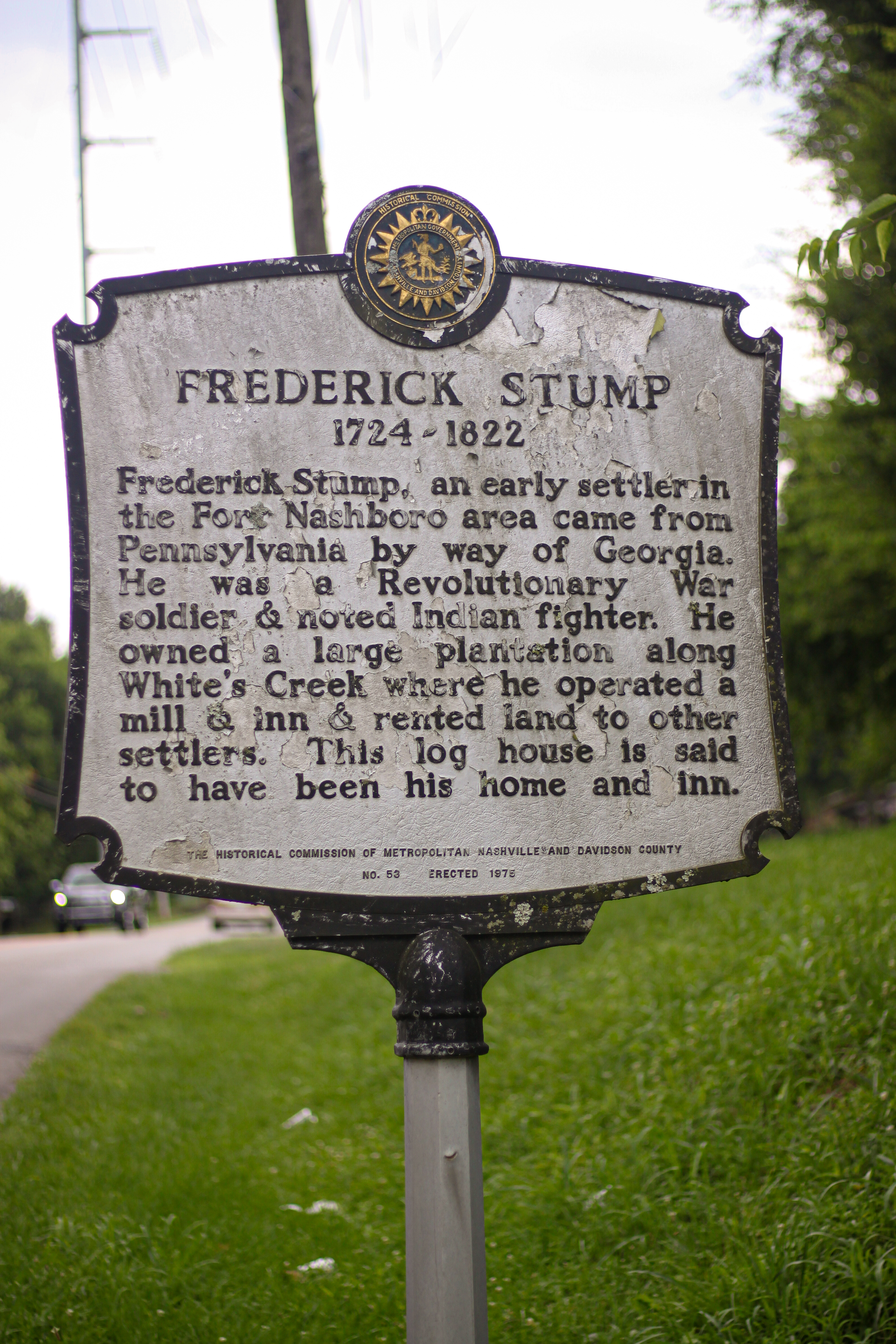 Historical marker reads: "FREDERICK STUMP 1724-1822 Frederick Stump, an early settler in the Fort Nashboro area came from Pennsylvania by way of Georgia. He was a Revolutionary War soldier & noted Indiana fighter. He owned a large plantation along White's Creek where he operated a mill & inn & rented land to other settlers. This log house is said to have been his home and inn. The Historical Commission of Metropolitan Nashville and Davidson County No. 53 erected 1975" At the Frederick Stump House, a historic home in Nashville, TN on the National Register of Historic Places. Also known as the Frederick Stump Tavern-Inn. Originally owned by Colonel Frederick Stump, early settler of the Nashville, Tennessee area.